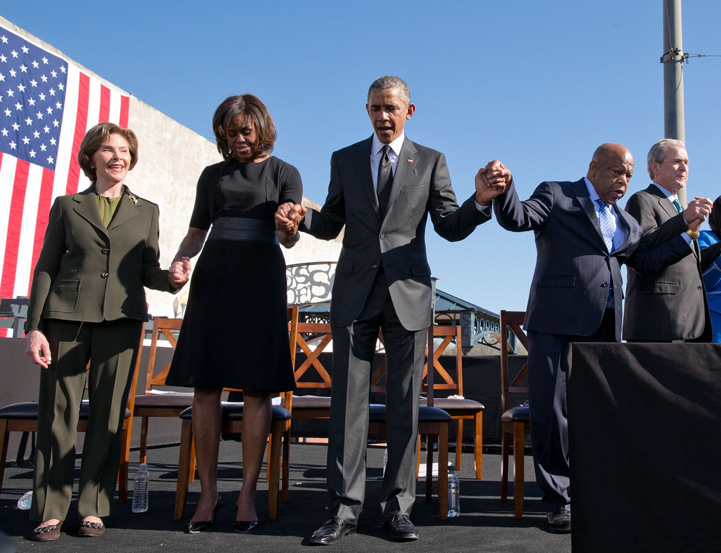 President Obama, First Lady Michelle Obama, Congressman John Lewis, and former President George W. Bush and former First Lady Laura Bush participated in the program.